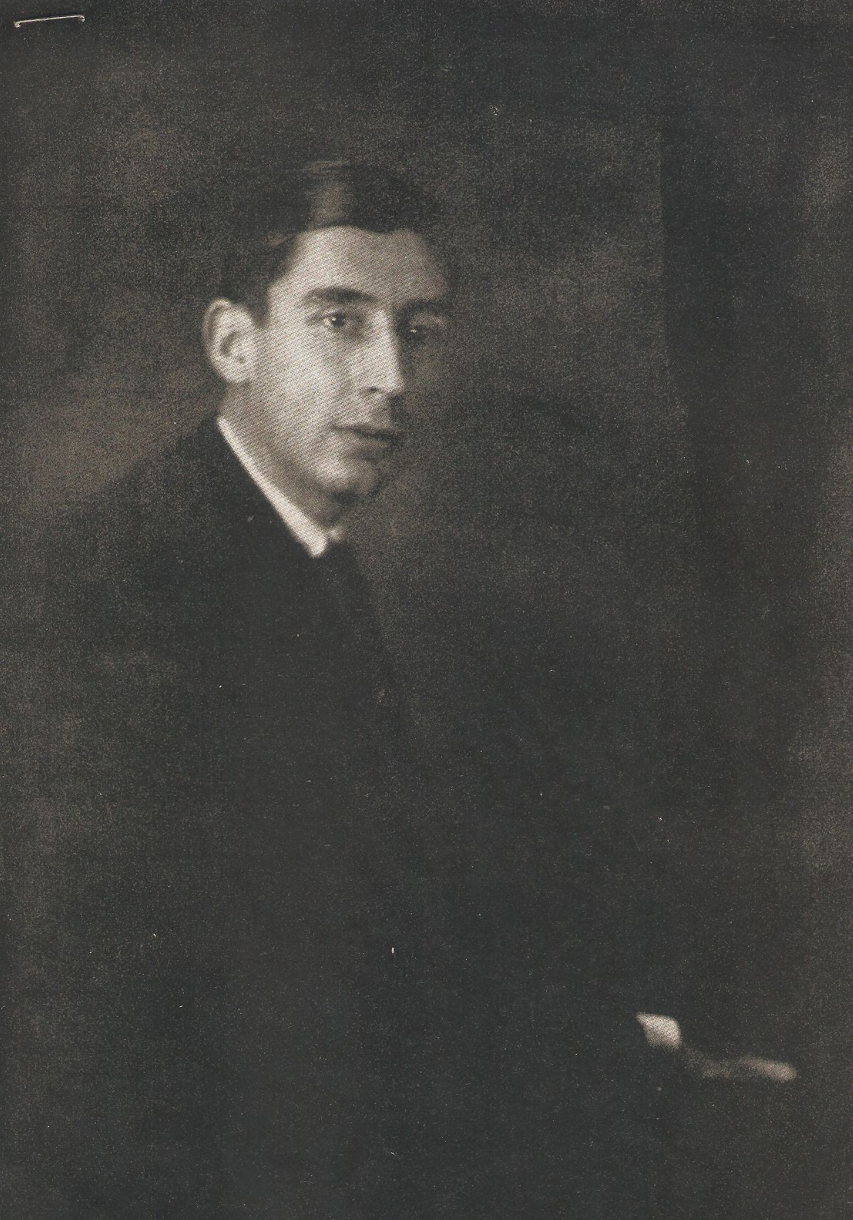 Artistas europeos y latinoamericanos